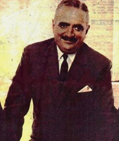 Polo Giménez, Argentina, Catamarca ("Paisaje de Catamarca"). Folk musician.